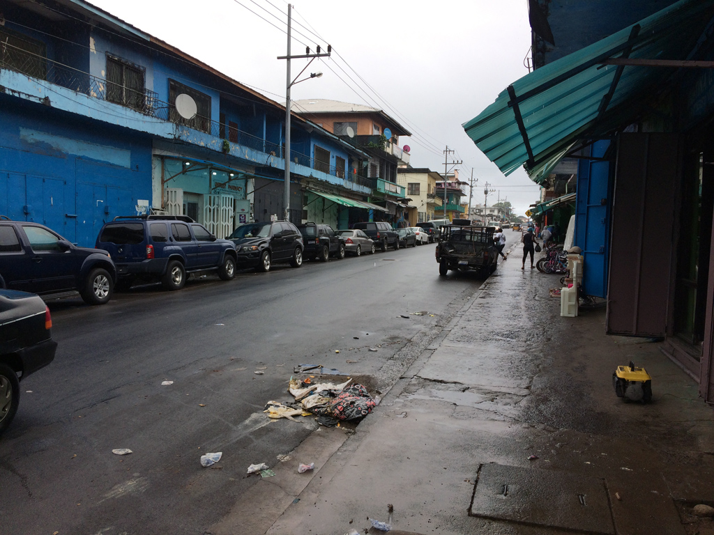 Camp Johnson Road in Central Monrovia.